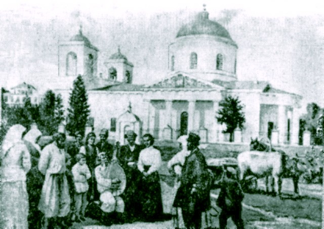 Hadiatch. Lesya Ukrainka and Clement Kvitka near Cathedral of the Assumption of the Virgin Mary Эрзянь: Hadiatch. Lesya Ukrainka et Clément Kvitka près de cathédrale de l'Assomption de la Vierge Marie